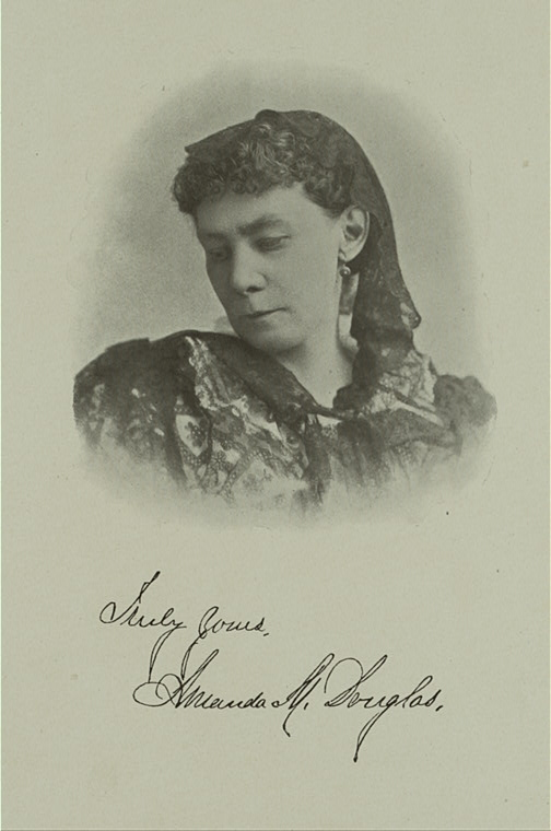 American writer Amanda Minnie Douglas, signed by the author